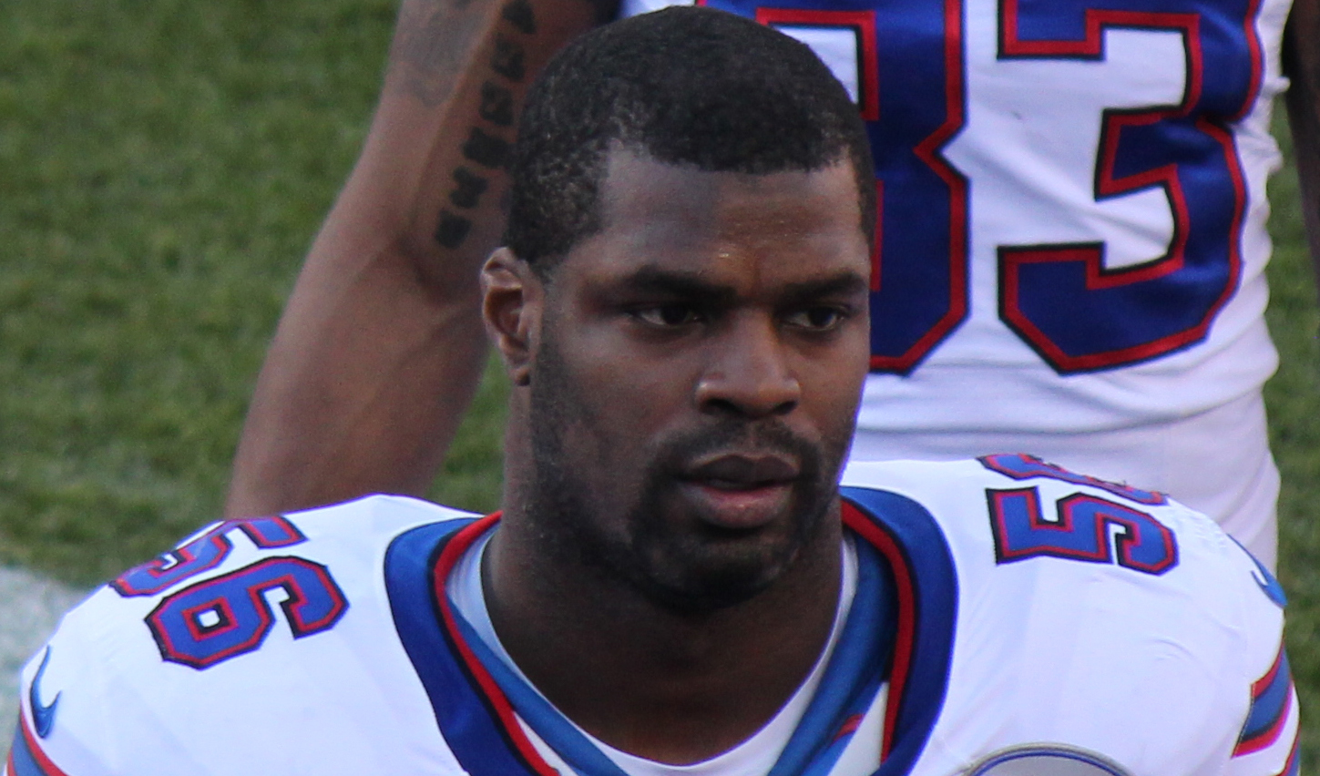 Keith Rivers, a player on the National Football League.